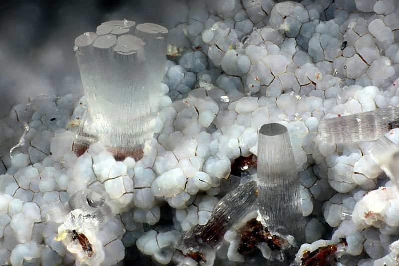 Erionite (FOV: 1.08 mm) Locality: Phelps Dodge Corporation Well No. 1, Little Ajo Mountains, Ajo District, Pima County, Arizona, USA Original description: 1.08 mm area with Erionite crystals